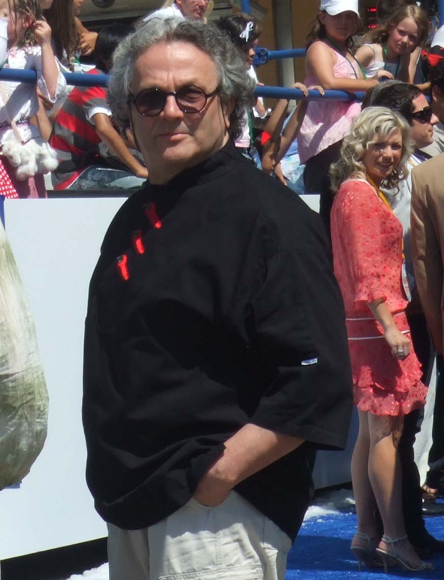 Happy Feet director George Miller at the Australian premiere of the film